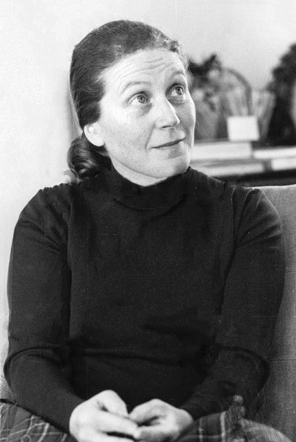 1970 Svetlana Alliluyeva Daughter of Josef Stalin Press Photo